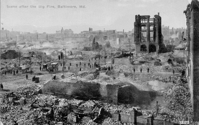 The Great Baltimore Fire struck Baltimore in the early 20th century. Here is a photo of the rubble and destruction that the fire brought to the city.